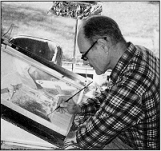 Dr. Widen hard at work.